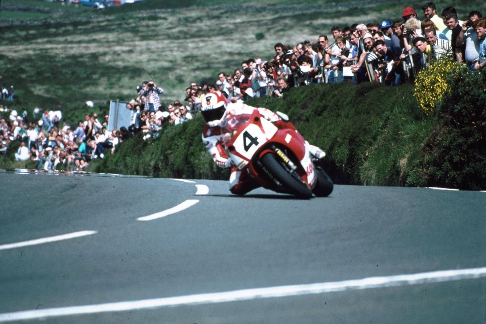 Carl Fogarty at Creg-ny-Baa on the Isle of Man